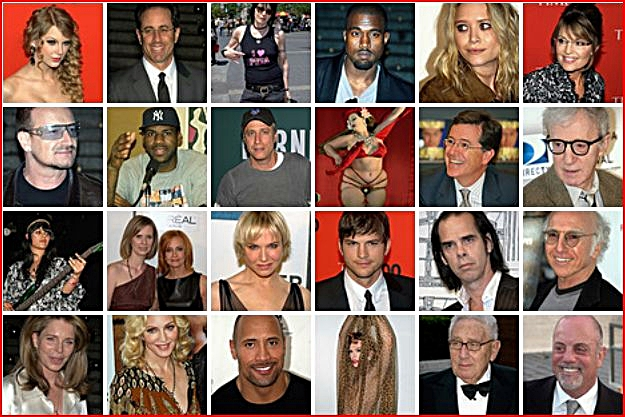 Image of David Shankbone's 100 favorite portraits. Click here to see those 100 favorites.